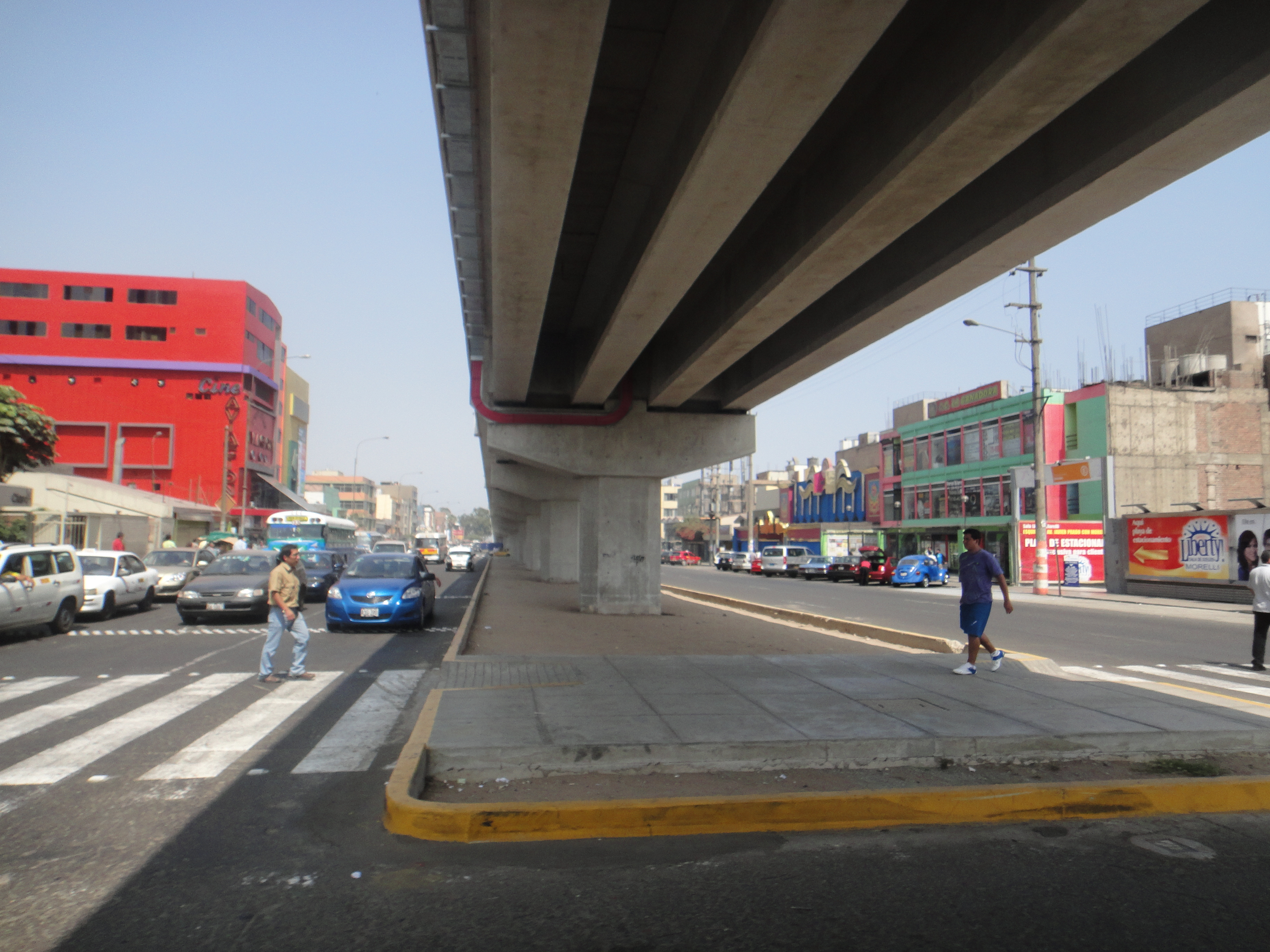 Aviación Ave in San Borja District, Lima-Peru.